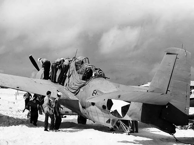 Picture of the only survivor of six Torpedo Squadron Eight (VT-8) Grumman TBF "Avengers" that had attacked the Japanese carrier force in the morning of 4 June 1942. Seaman 1st Class Jay D. Manning, who was operating the .50 caliber machinegun turret, was killed in action with Japanese fighters during the attack. The plane's pilot was Ensign Albert K. Earnest and the other crewman was Radioman 3rd Class Harry H. Ferrier. Both survived the action. The plane (TBF-1, BuNo 00380) was photographed near the foot of the Sand Island pier, Midway, on 24 June 1942, prior to shipment to the United States for evaluation.